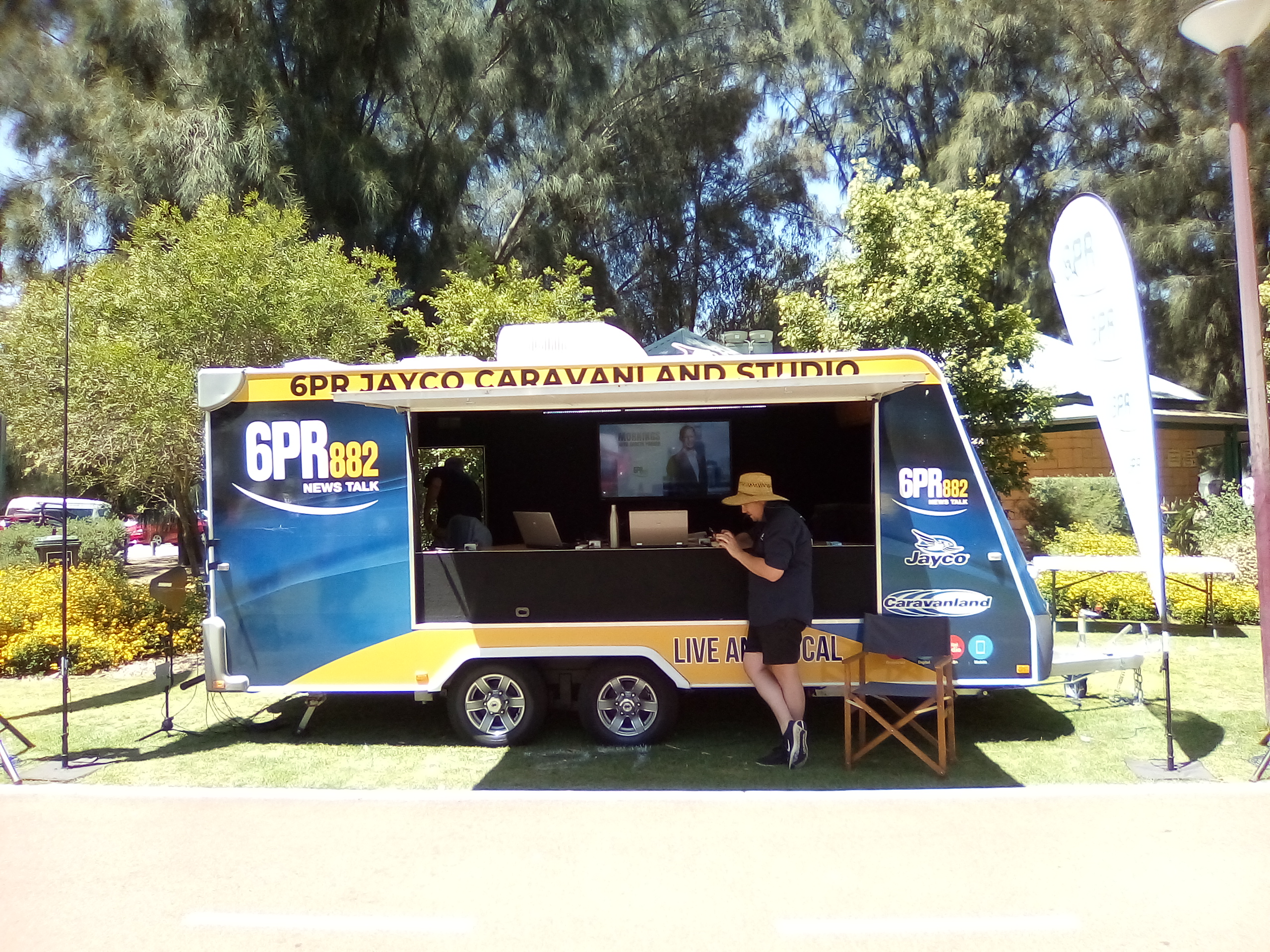 6PR outside broadcasting Caravan, built by Jayco in operation at Seniors Recreation Council - 2019 Have a Go Day